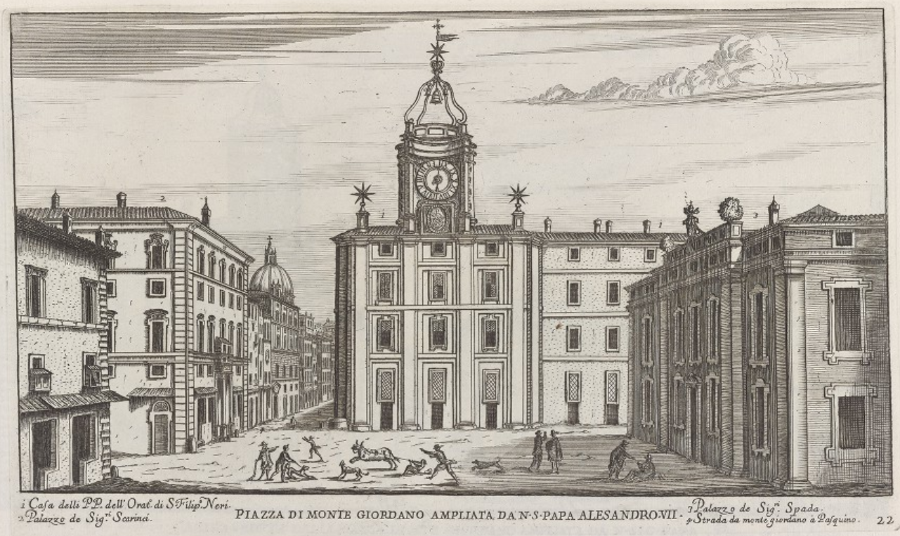 View of the square of Monte Giordano and the Oratory of S. Filippo Neri (1 in the image) currently named Piazza dell'Orologio (the Clock square) after the Clock tower topping the oratory. The view includes Palazzo Scarinci (2 in the image) and Palazzo Spada (3 in the image) and opens on a road coming from Monte Giordano street (4 in the image) leading towards the statue of Pasquino. This road is currently named Via del Governo Vecchio. The engraving is not signed by Giovanni Battista Falda, and unlike most of the other engravings in this volume (Book I) the name of the publisher, Giovanni Giacomo De Rossi, does not appear.